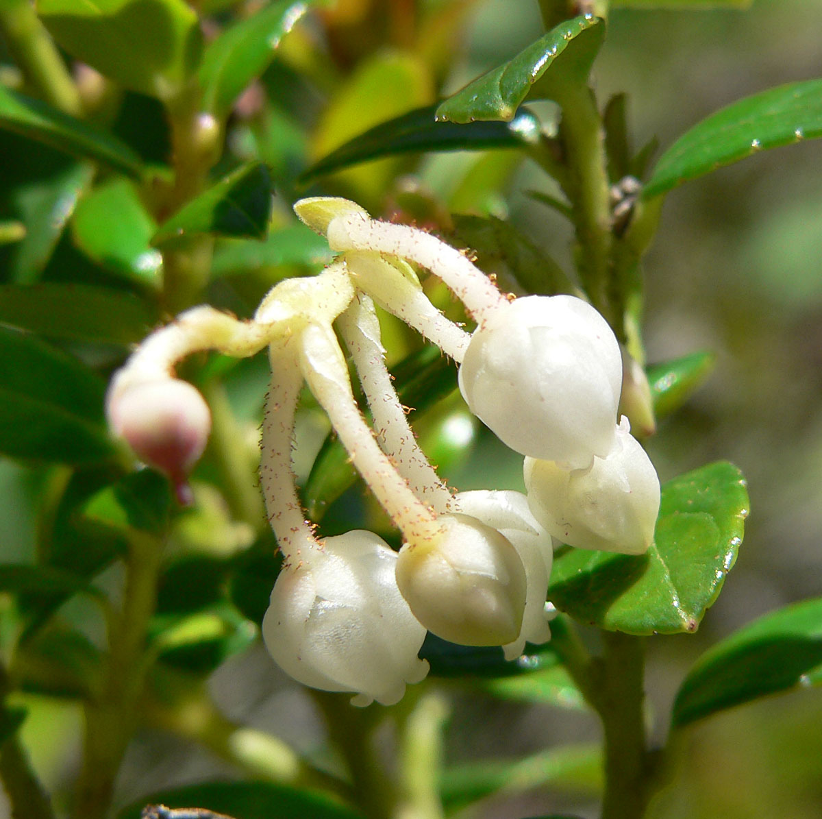 Pernettya prostrata at the University of California Botanical Garden, Berkeley, California